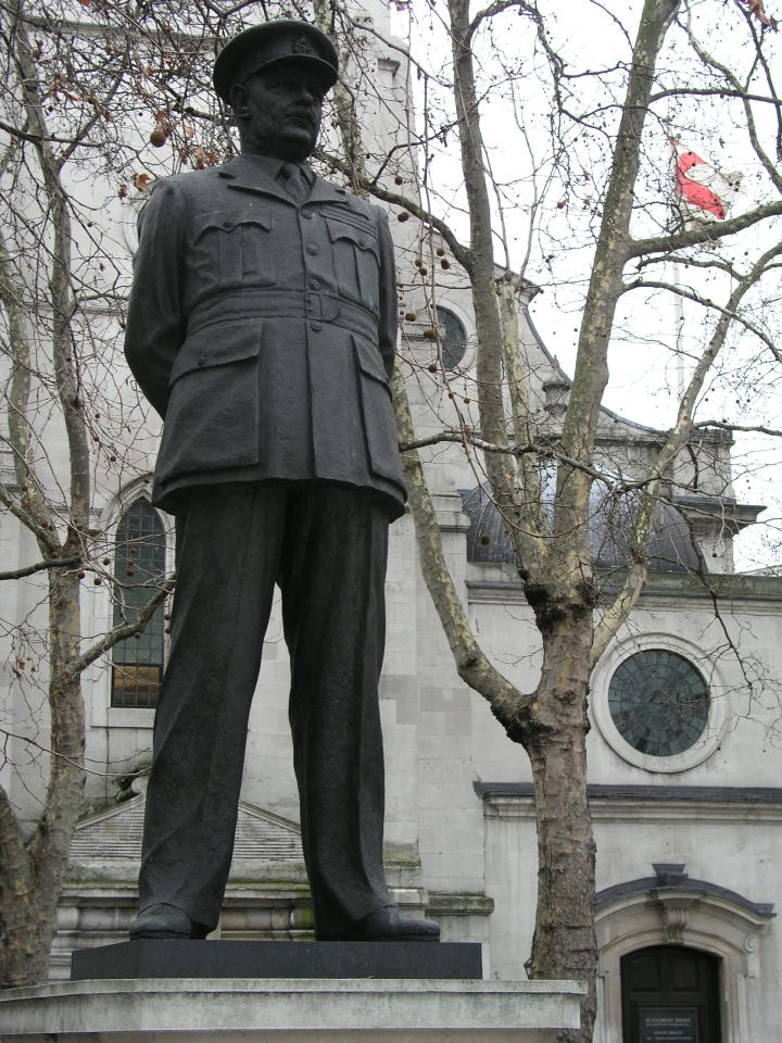 Arthur Harris (London). This statue designed by Faith Winter stands outside St Clement Danes Church in The Strand, London